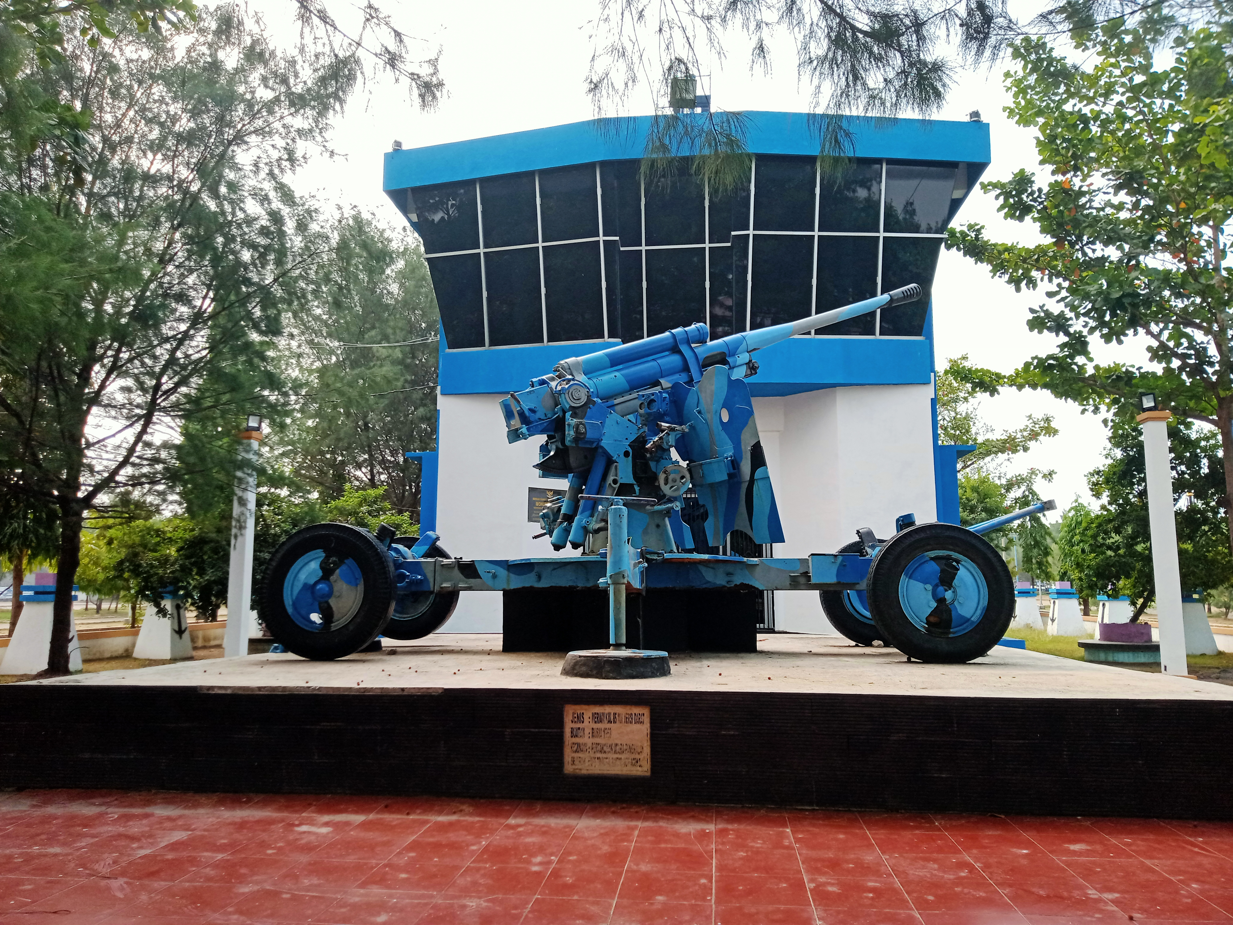 Monumen Bahari